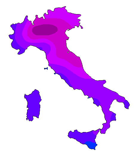 Map of daily sunshine hours in Italy in January